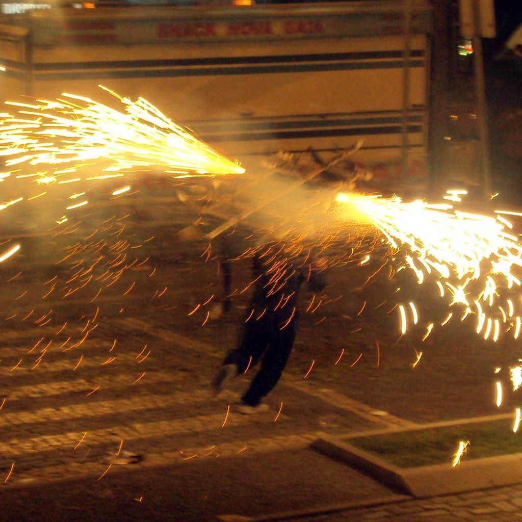 Sebastianas Freamunde Fire Cow